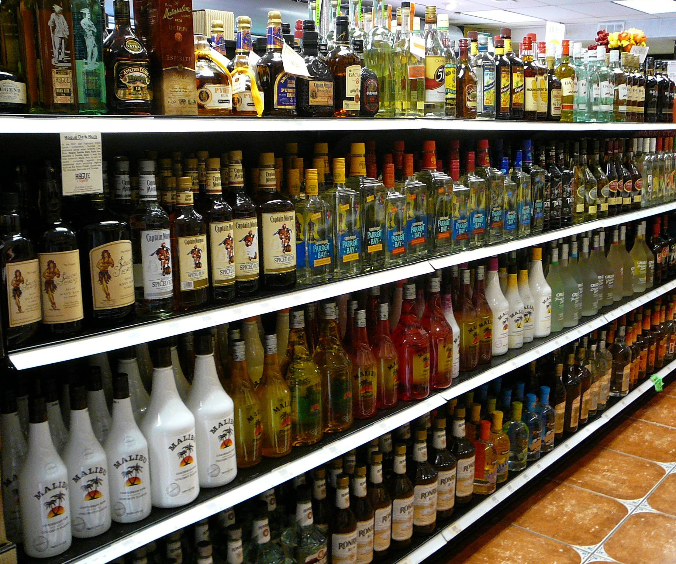 A selection of gins offered at a liquor store in Decatur, Georgia, United States